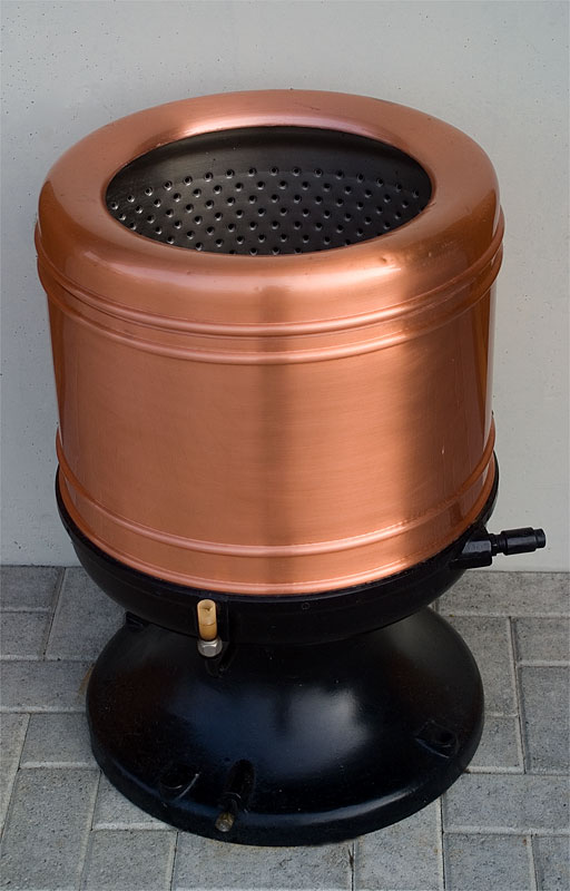 Spin drier